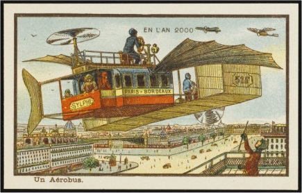 France in 2000 year (XXI century). Air bus "Silfia" № 525 "Paris - Bordo". France, paper card.